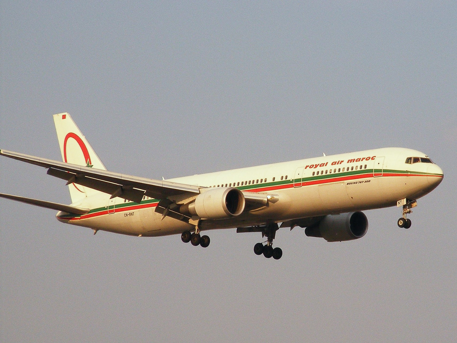 Royal Air Maroc Boeing 767 landing @ YUL (Montréal-Trudeau)